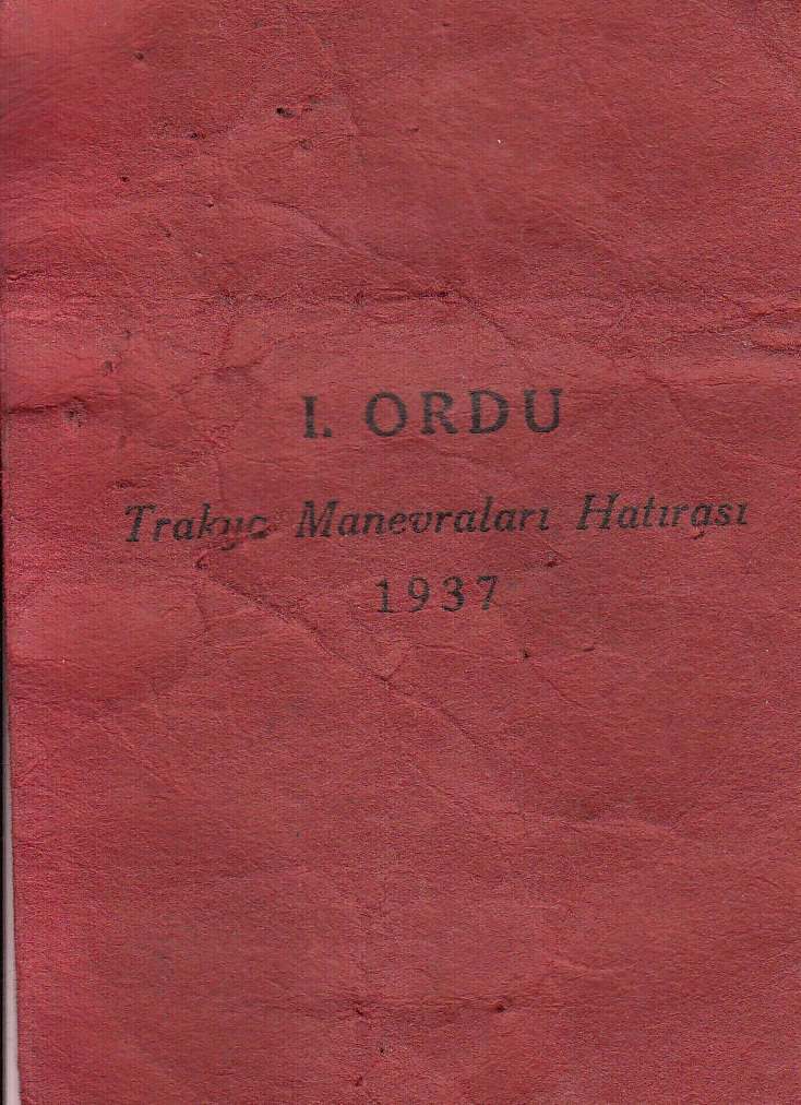 1937 Thrace Military Manouvres Momento Cover belonging to cavalry non-commisioned officer Rıza Eratalay